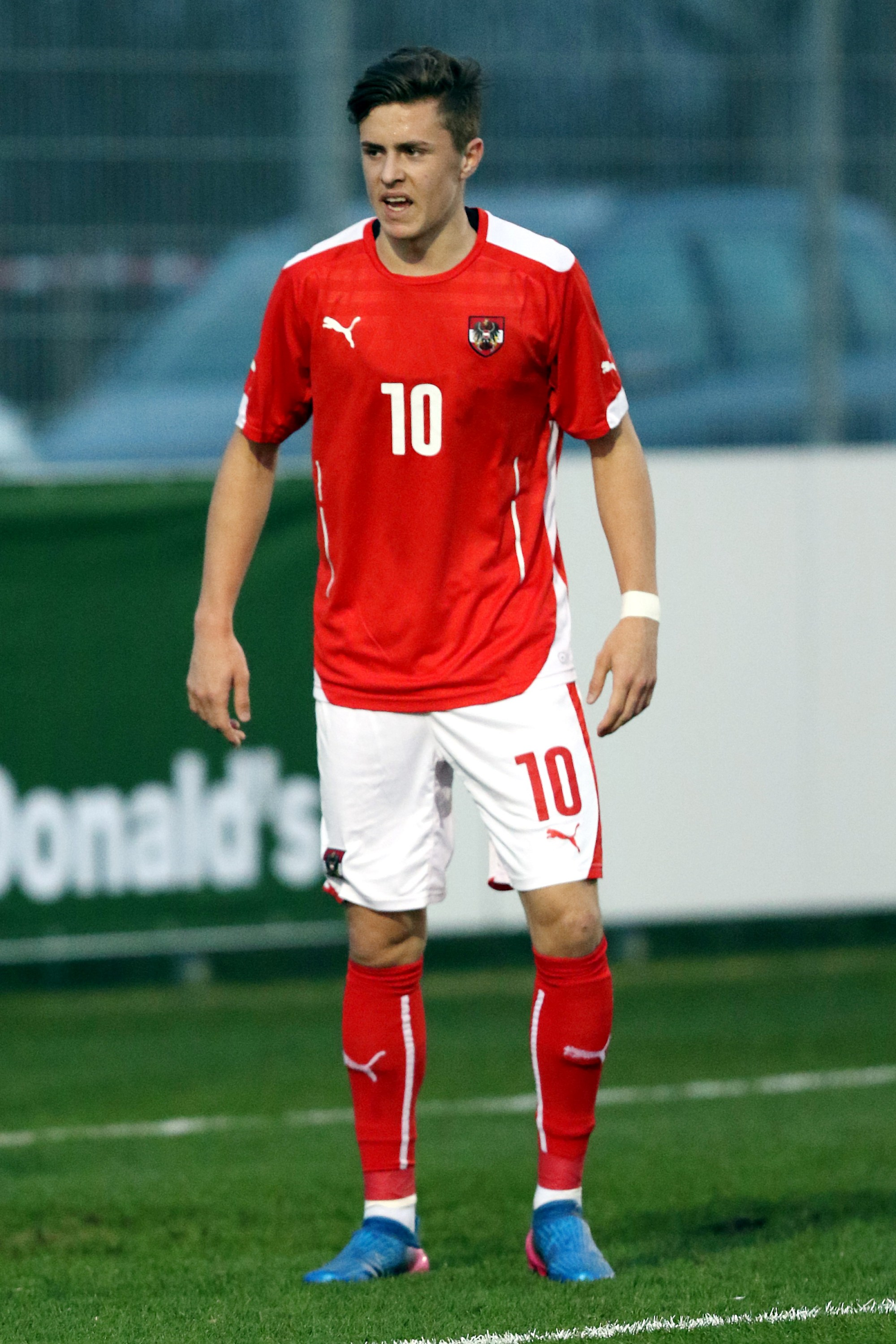 Friendly match Austria national under-18 football team (red shirts) vs. Netherlands national under-18 football team (blue shirts) 1–1 (1–0) on 2017-03-23 in Eggendorf – The photo shows Christoph Baumgartner (AKA St. Pölten)